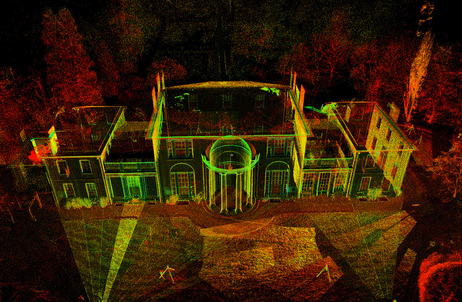 3D Laser Scan data of the exterior of Tudor Place. The southern facade of the house is in the foreground. The circular Temple Portico that extends into the space of the Saloon is a prominent architectural feature of the house. A floor to ceiling wall of glass prominently in front, and its panes appear curved. The architect is practicing an optical illusion, however, for it is the woodwork that is curved and not the glass. Access to the South lawn is provided by the center windows of the Saloon, which open and can be pushed up into the wall above forming a door.